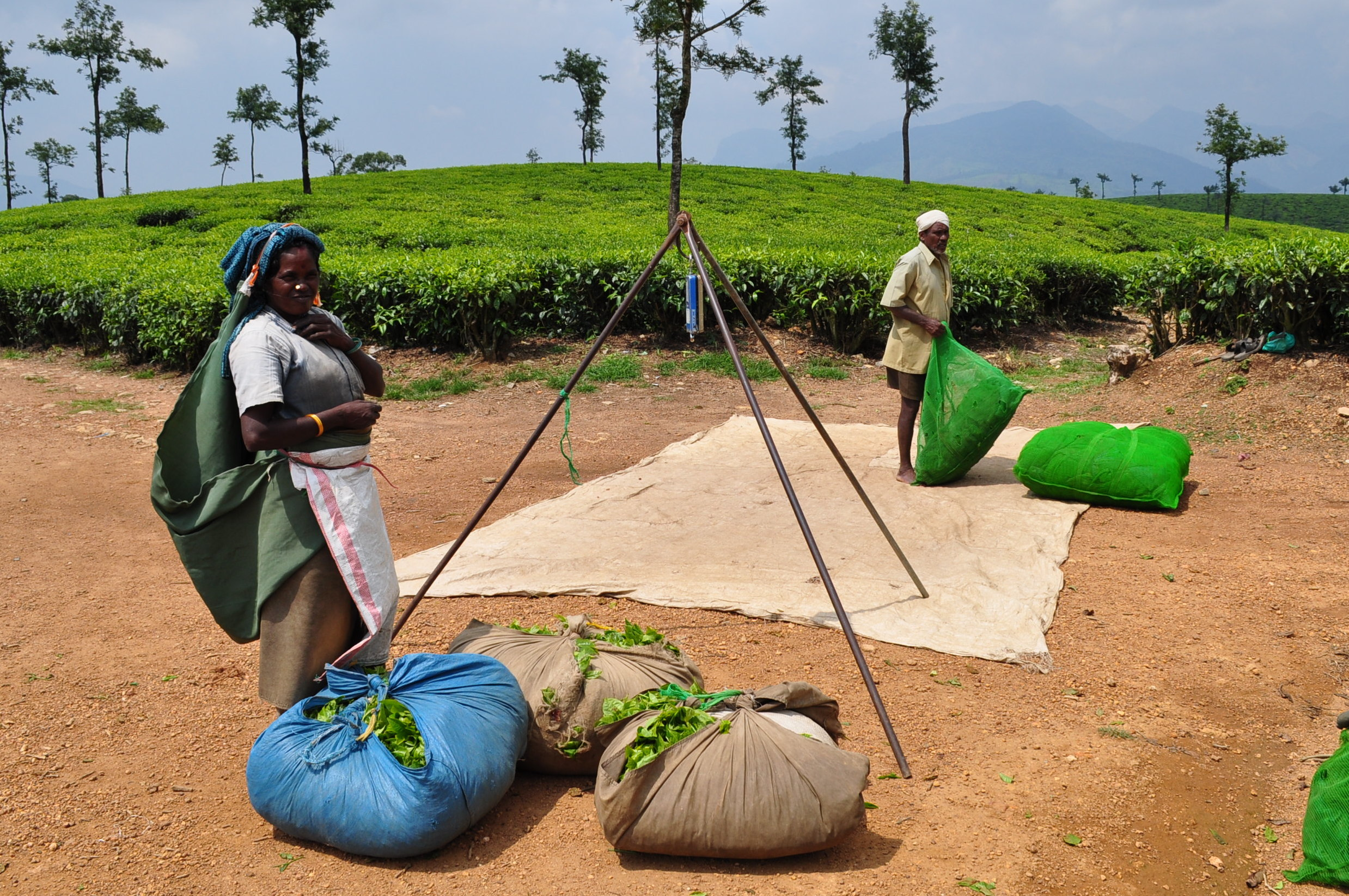 Valparai Tea Estate, Tea picker